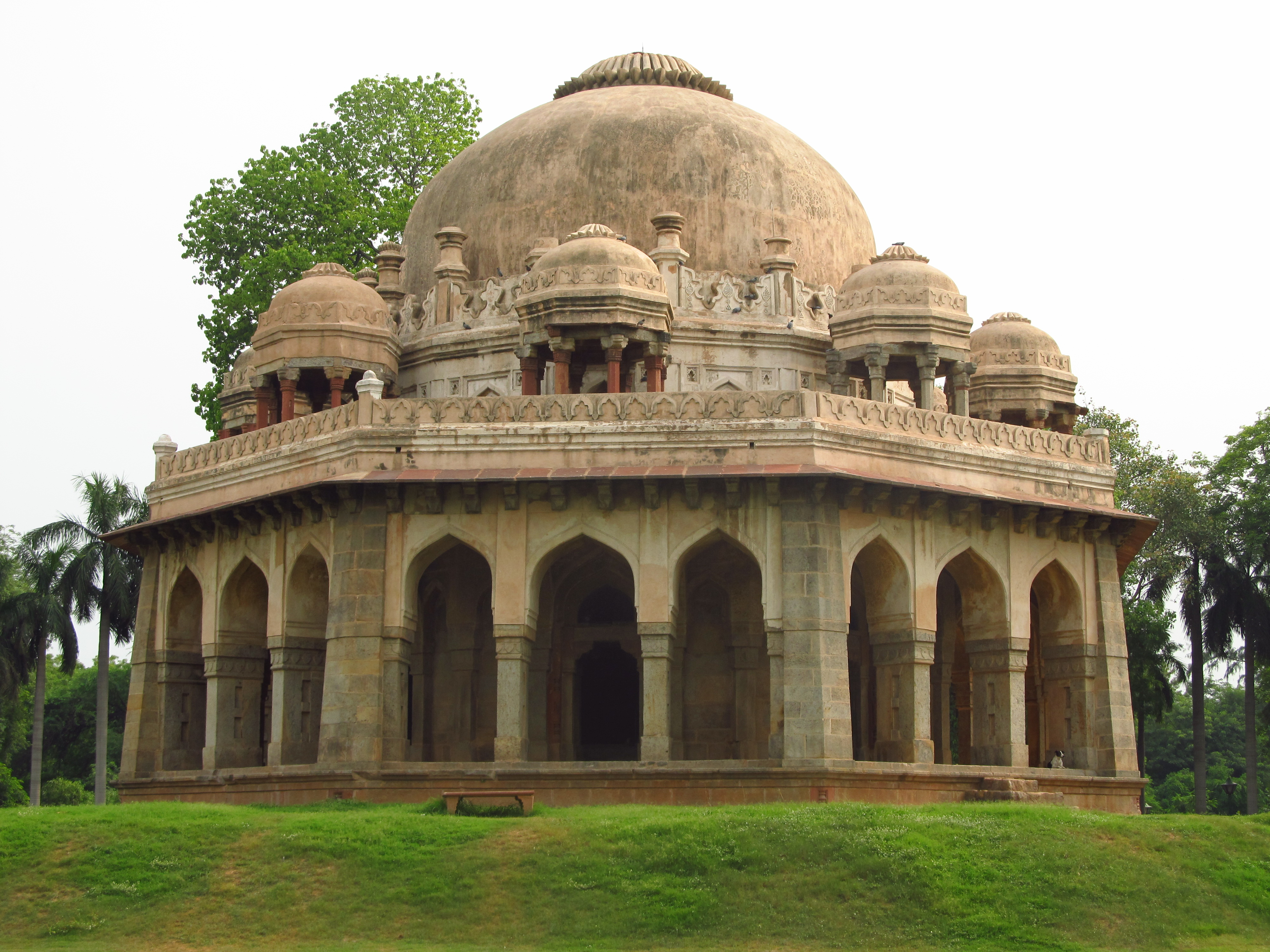 Tomb of Mohammed Shah in Lodhi Garden, New Delhi